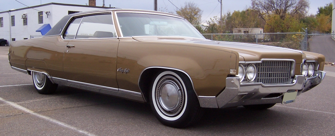 1969 Oldsmobile Ninety-Eight